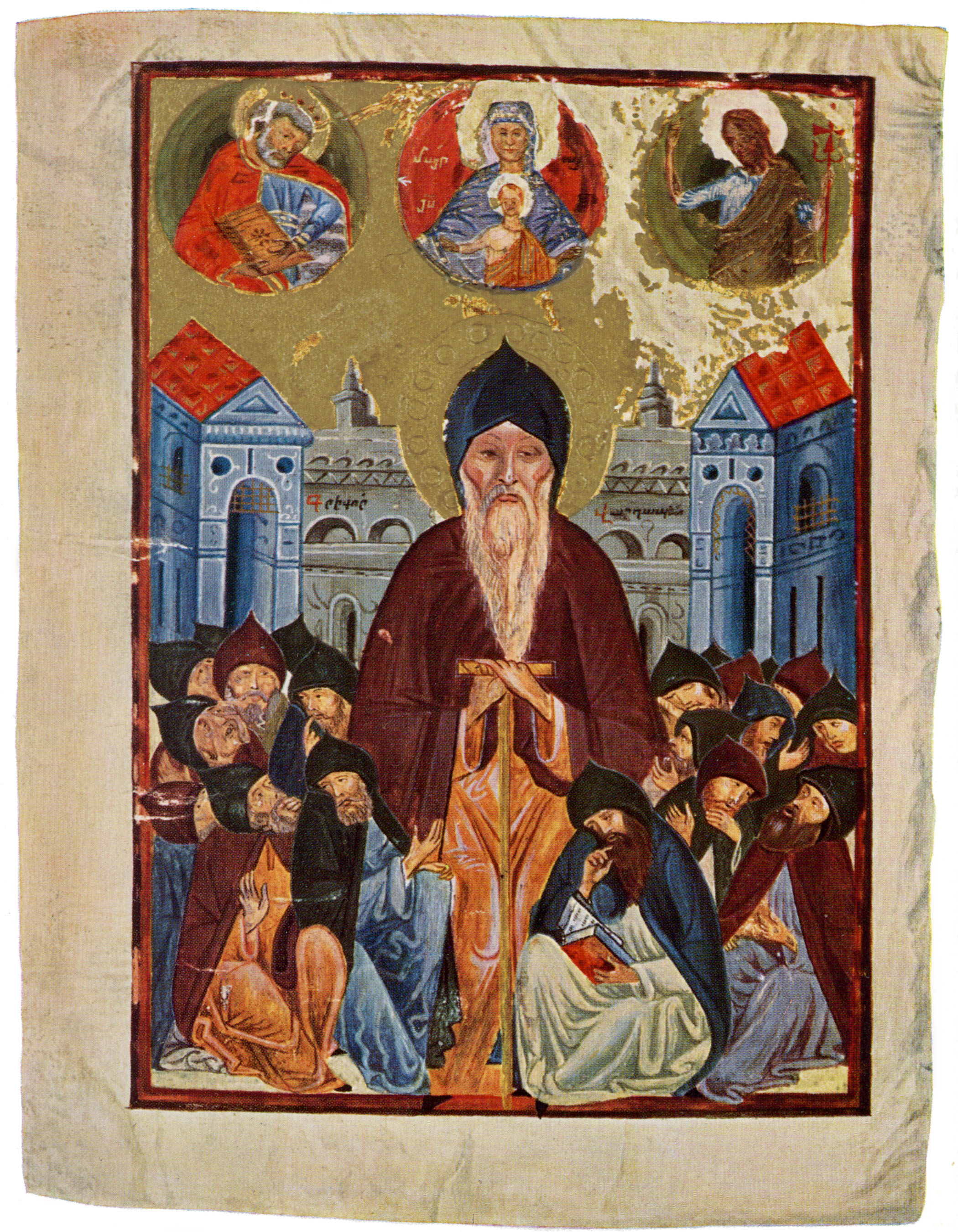 Commentary to David's psalms - portrait of Grigor Tatevatsi 1449